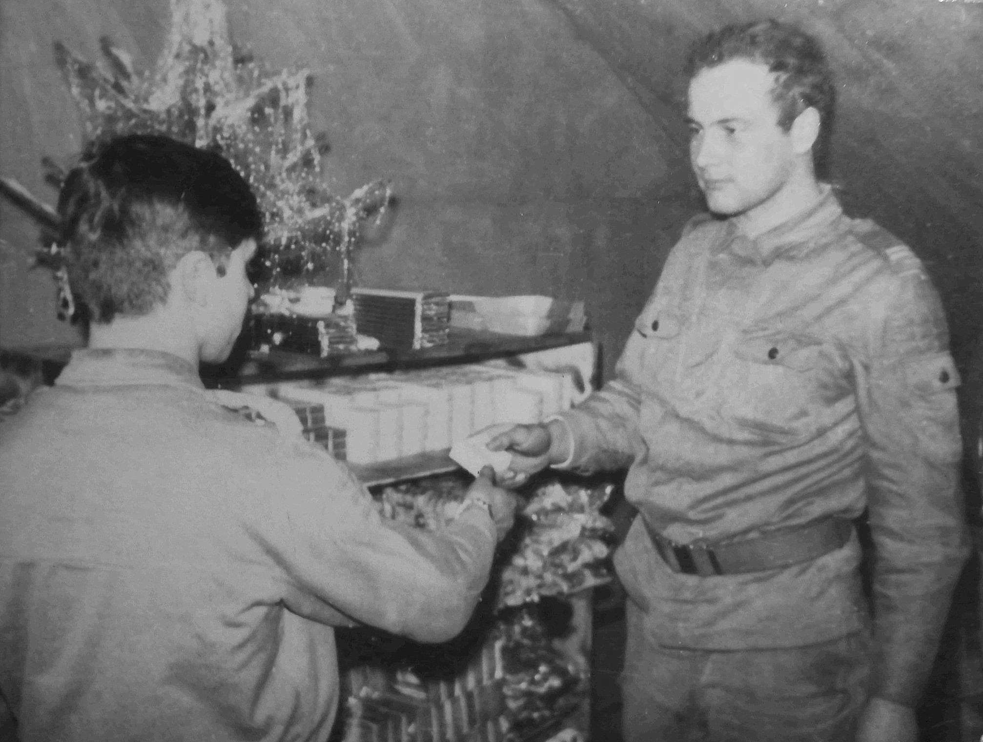 WOP post in Krasne Pole